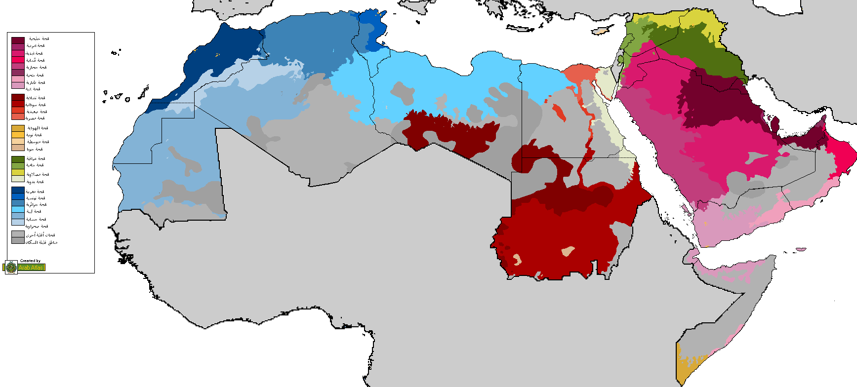 Map of Arabic dialects in the Arab World.